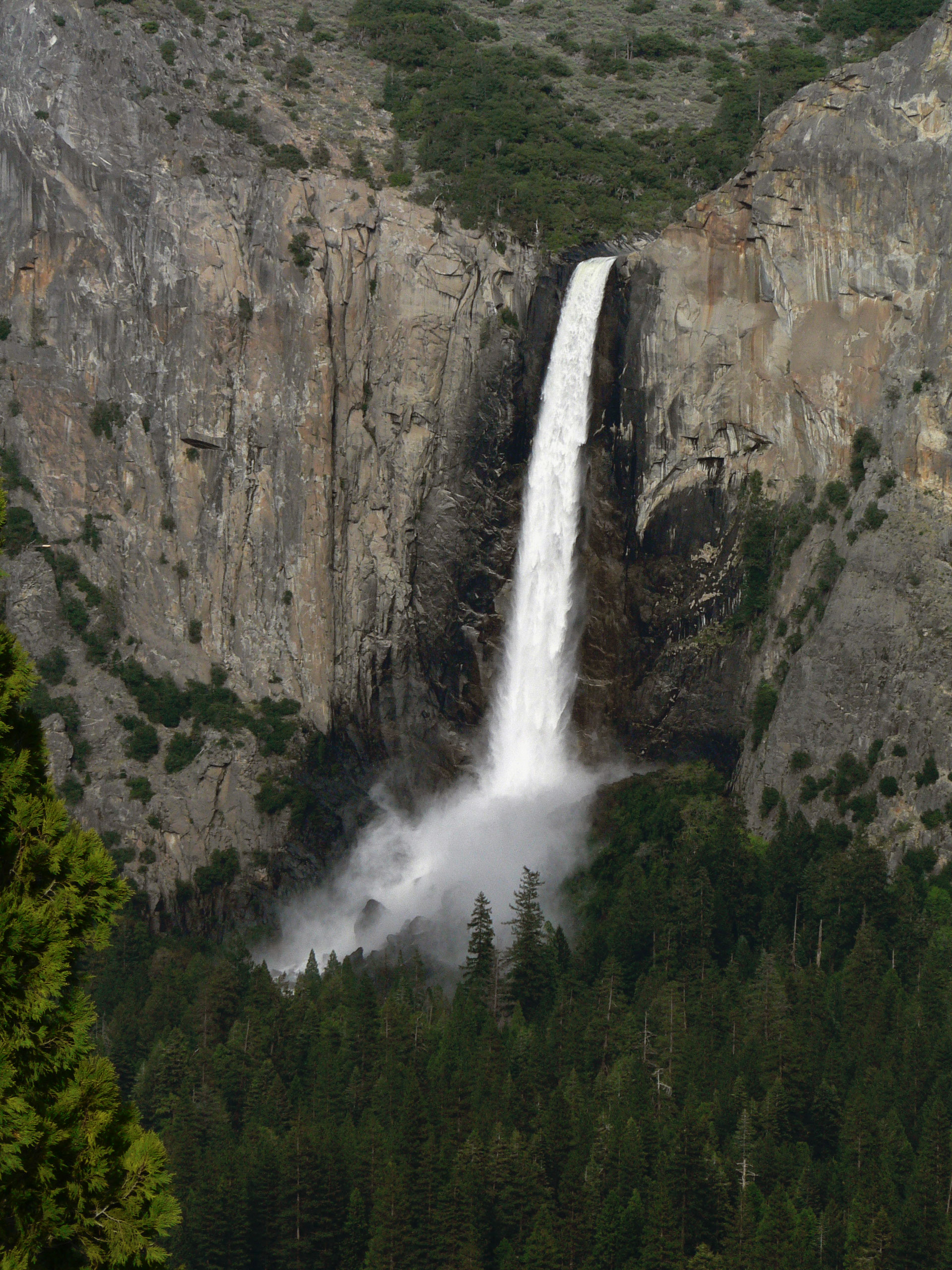 Bridalveil Fall, as seen from Discovery View, Wawona Road, Yosemite National Park, at 4,400 feet (1,300 m) elevation